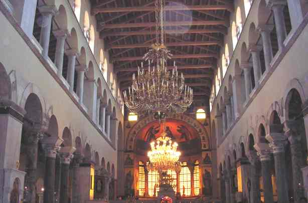 Church of Saint Demetrius, Thessaloniki